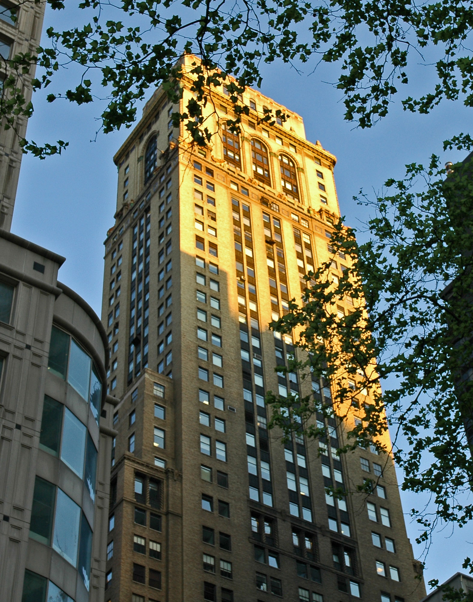 10 East 40th Street, in New York City, taken on May 9th, 2005 at, from the corner of 40th Street and Fifth Avenue, near the New York Public Library, main branch.